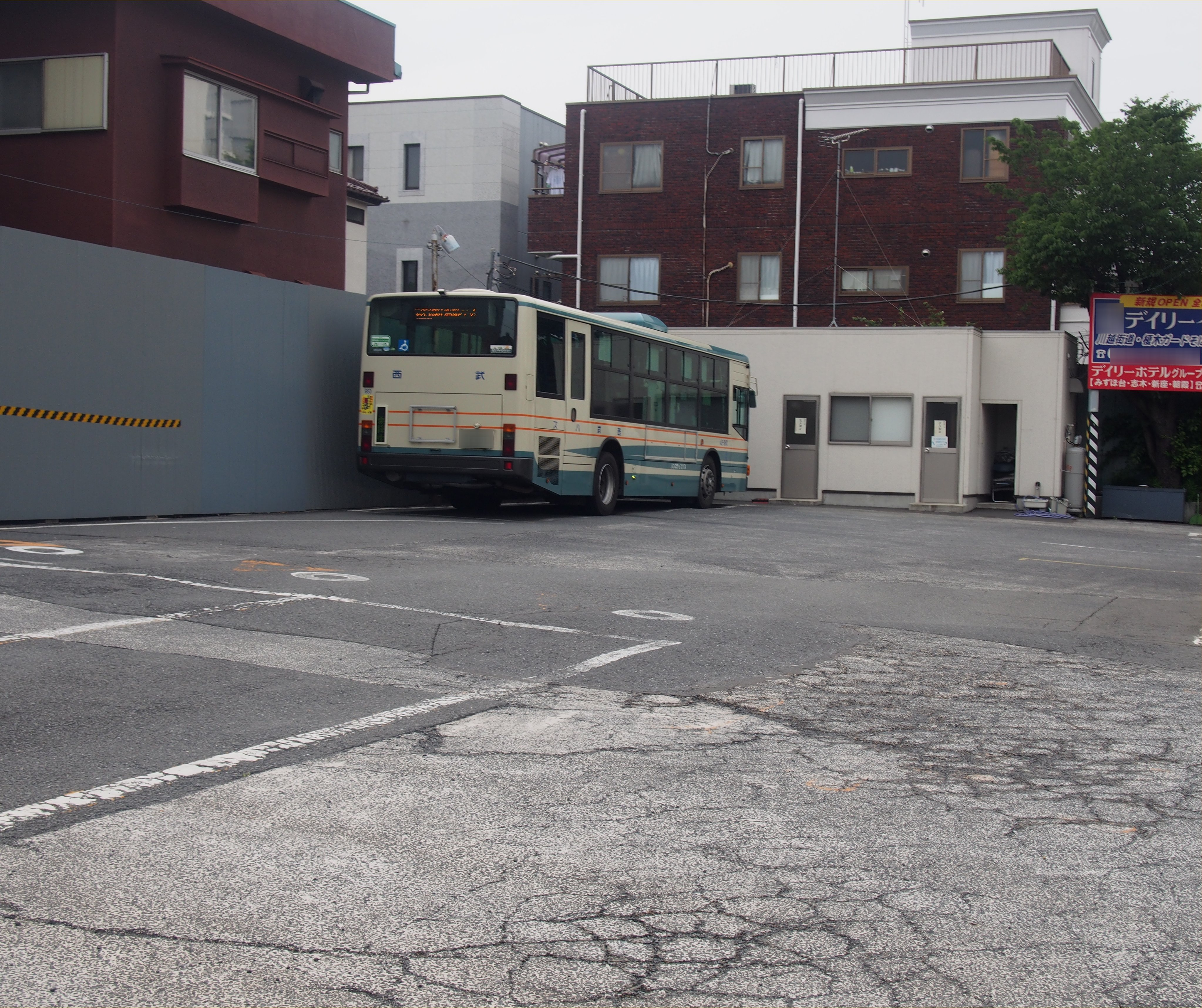 A photo of the Bus Terminal of "Tomin Noen Sekonic",Sakae,Niiza City,Saitama pref.,Japan.